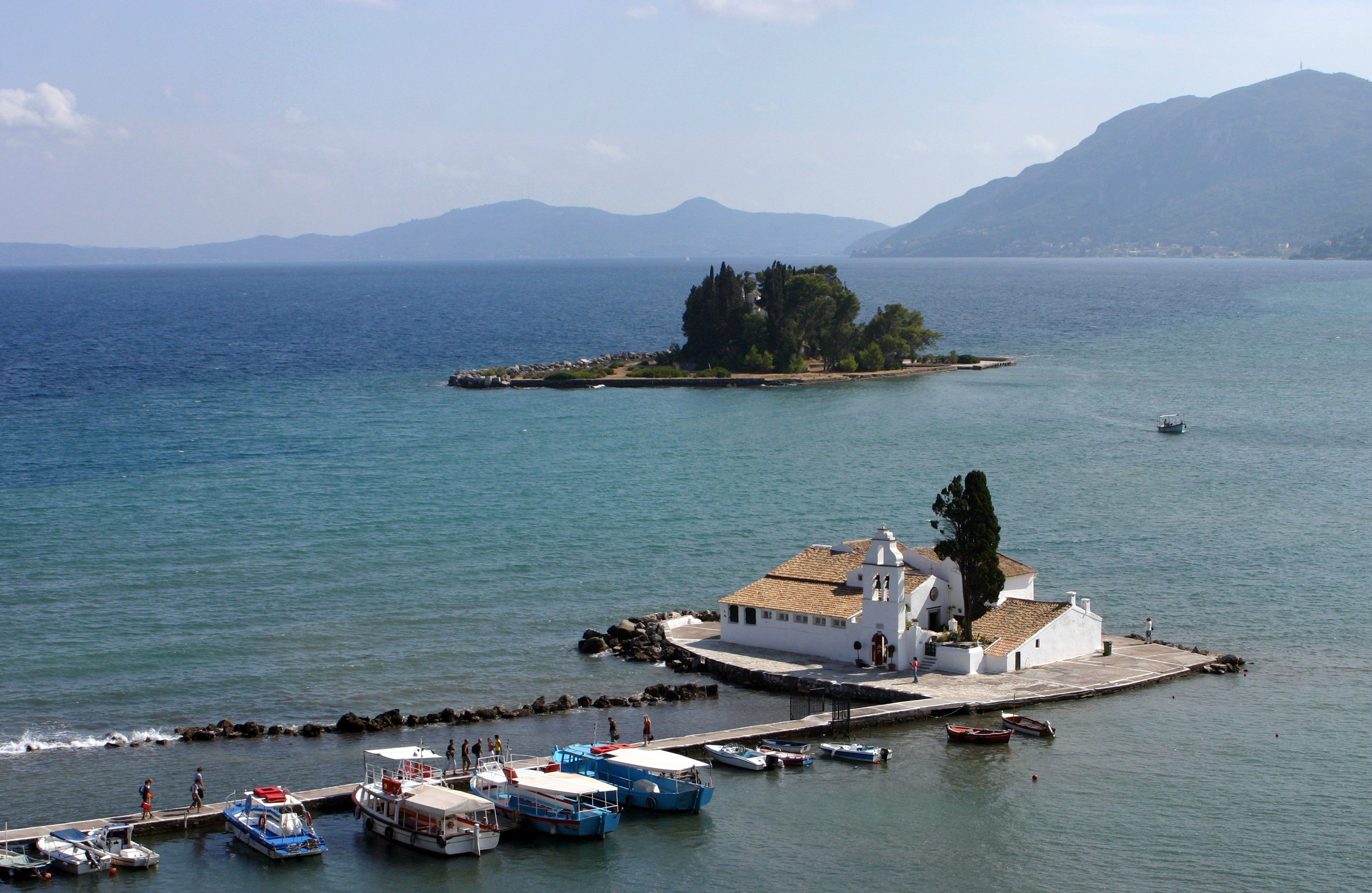 Picture of Pontikonisi Island, Corfu, Greece